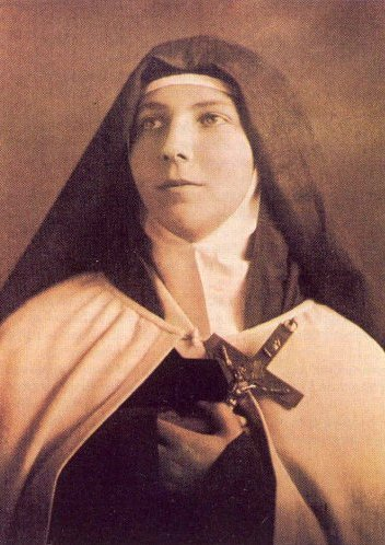 Photo of Teresa of the Andes, Chilean saint, (1900-1920)